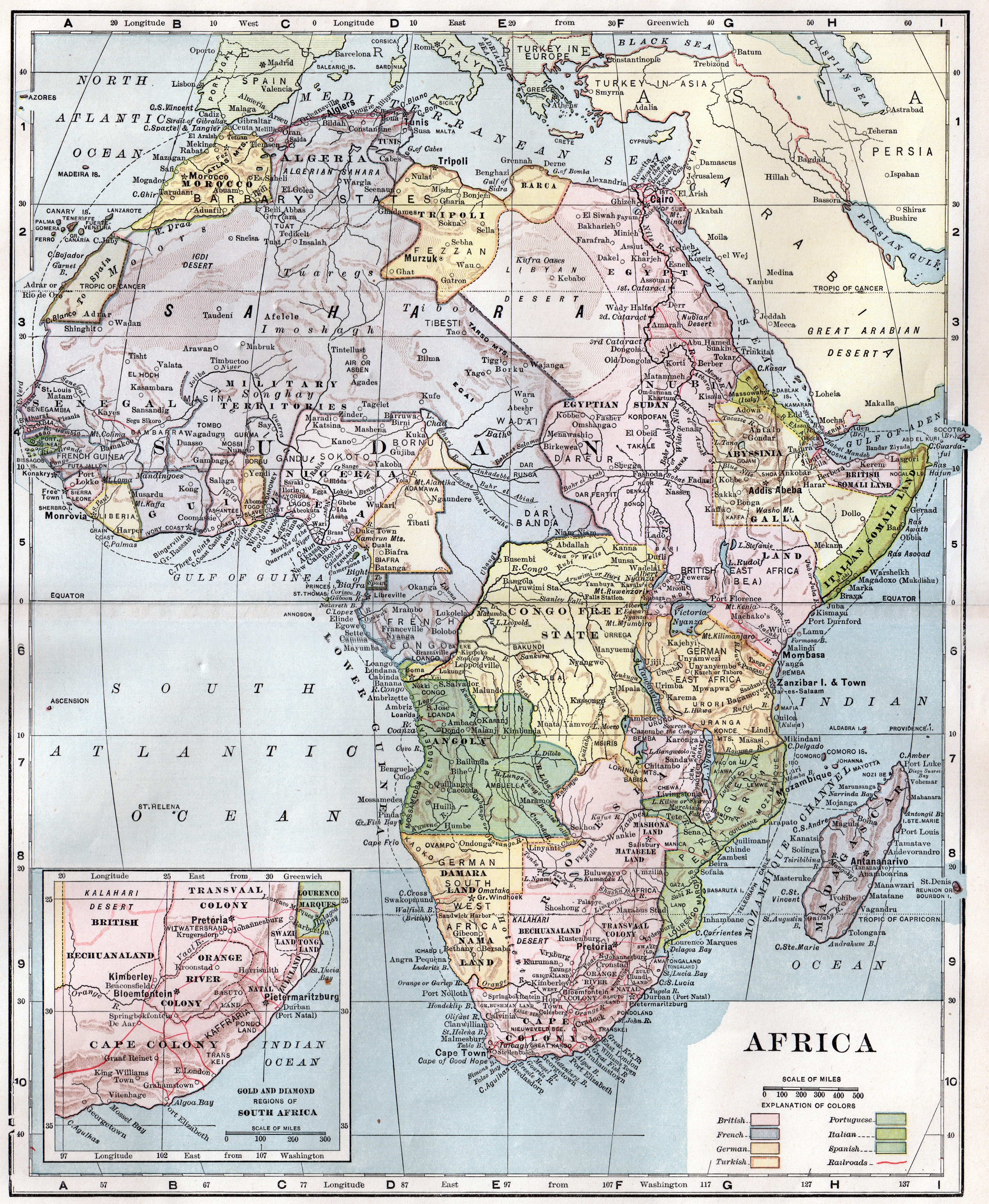 Map of the African continent published in 1904.